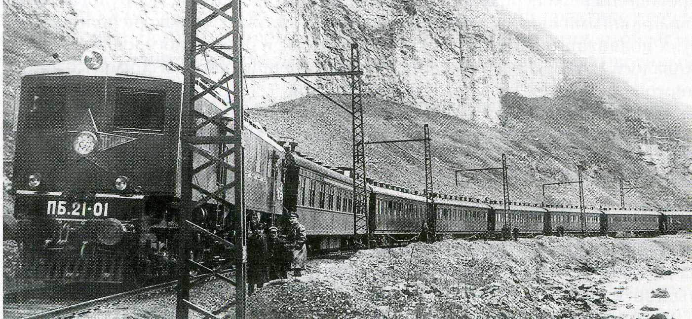 The trials of the high-speed PB 21-01 electric locomotive on the section of Khashuri — Gori of the Caucasian Railway. 1934